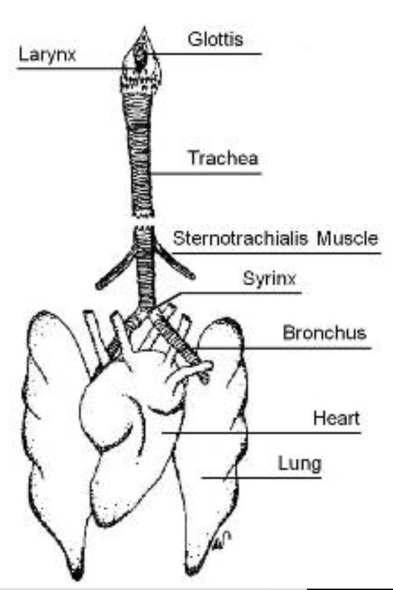 Diagram of the respiratory system of Aves (birds) with major organs labeled